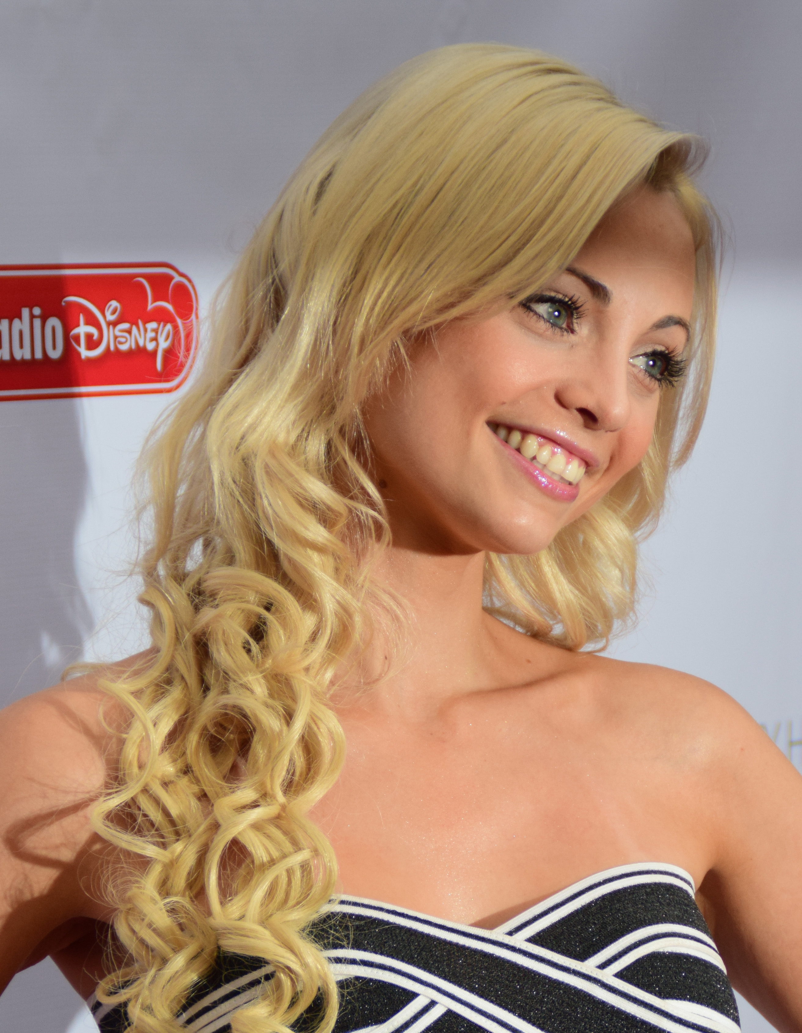 Mingle Media TV and our Red Carpet Report team with host, Denise Salcedo, were invited to come out to Sweet Suspense member Millie Thrasher's Sweet 16 Party with Radio Disney and her celebrity friends at the Hotel Sofitel in Hollywood. Get the Story from the Red Carpet Report Team, follow us on Twitter and Facebook at: About Sweet Suspense X Factor fan favorite girl group, Sweet Suspense, is an all-female pop power trio with Simon Cowell as their mentor off the hit series. Since 2013 the girls have been going full throttle proving that they are here to stay and are truly ready to be superstars. Since their time on The X Factor (they were in the top 12!) the girls have worked with some of the best producers in the business and have been busy recording new music and establishing themselves as positive role models for their fans. Fresh off premiering the music video for their single “Here We Go Again,” and being selected as one of the iHeart Radio Macy’s “Rising Stars,” Sweet Suspense recently released a music video for the female-empowering version of Max Schneider’s song “Gibberish.” Follow Millie on Twitter For more of Mingle Media TV’s Red Carpet Report coverage, please visit our website and follow us on Twitter and Facebook here: Follow our host, Denise Salcedo on Twitter at